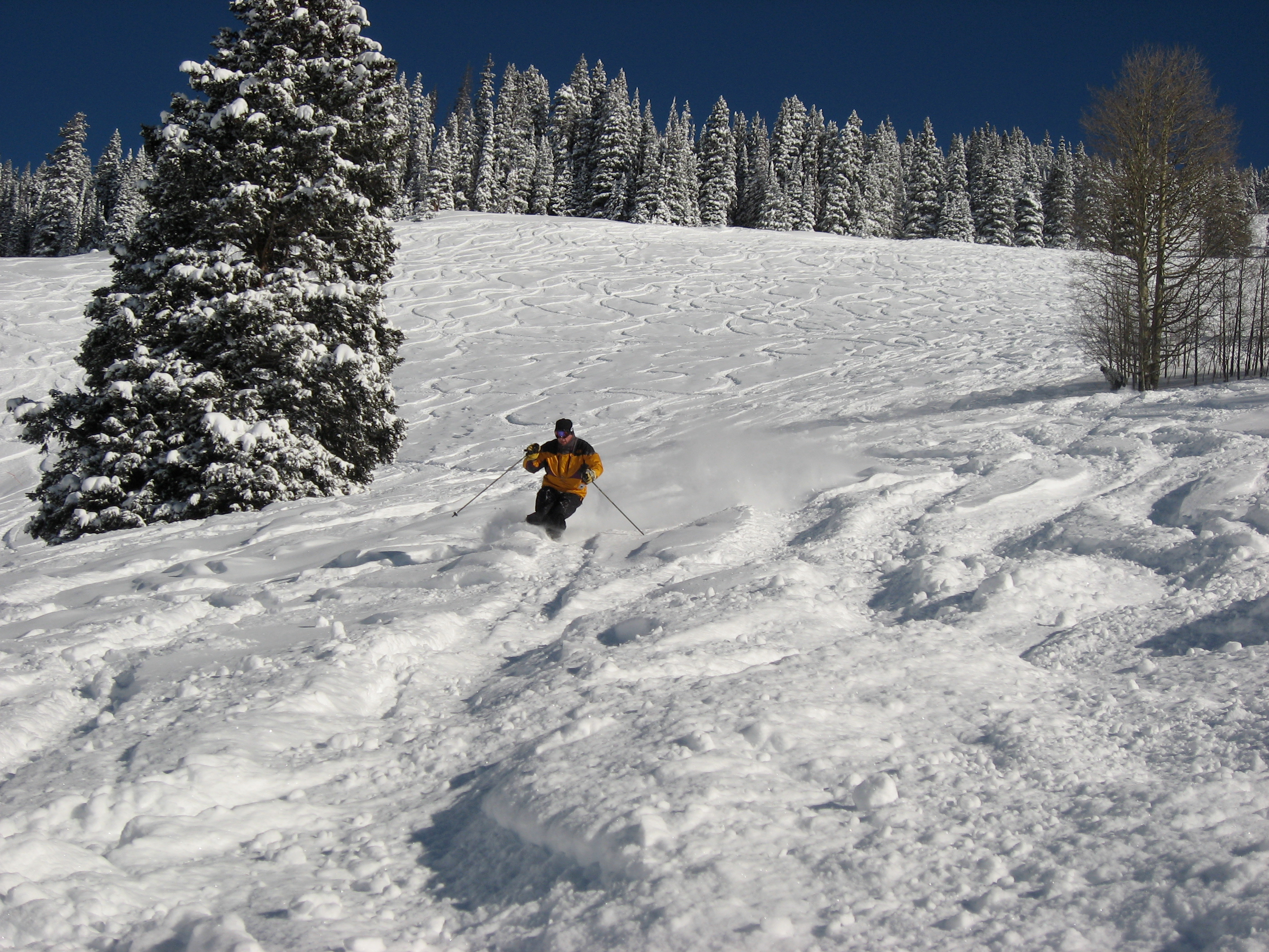 Powder day in Vail, Colorado, Skier on Vail Mountain Colorado USA Location: Vail